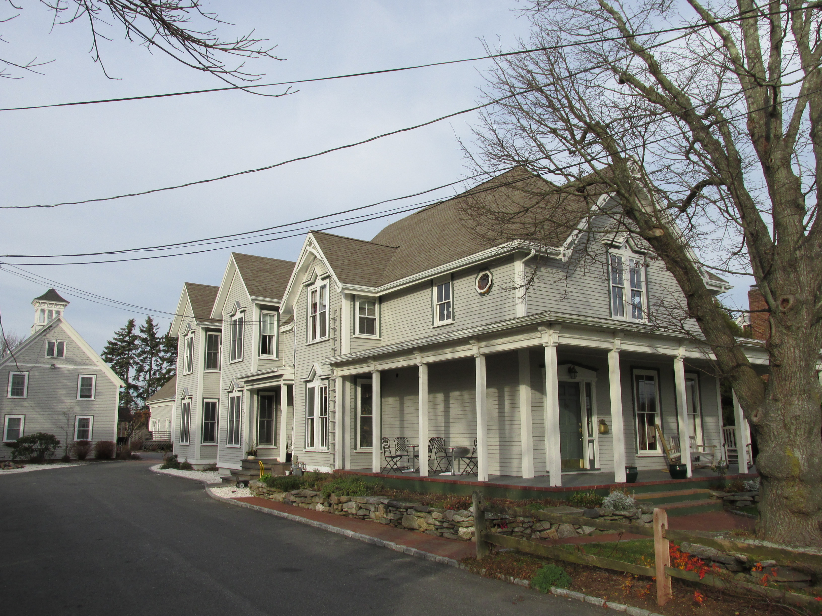 14 Main St, Hyannis Massachusetts